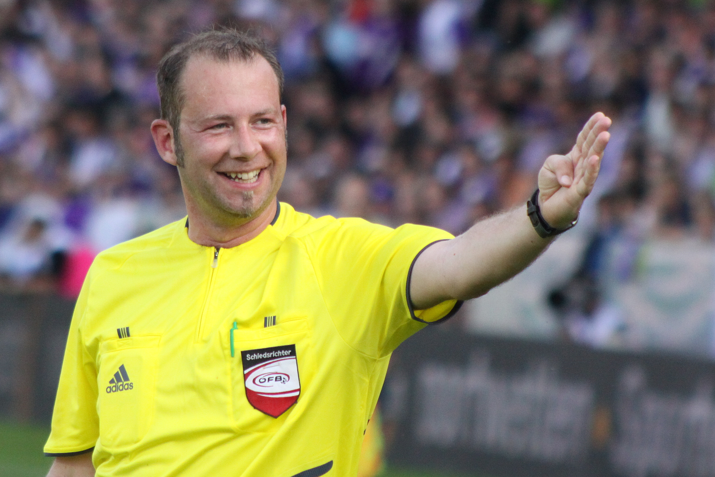 Austrian football referee Thomas Gangl. The picture was taken during the final of the Austrian Cup in 2009. The author asks you to notify him by e-mail if you re-use the photo: aon.912180459[at]aon.at